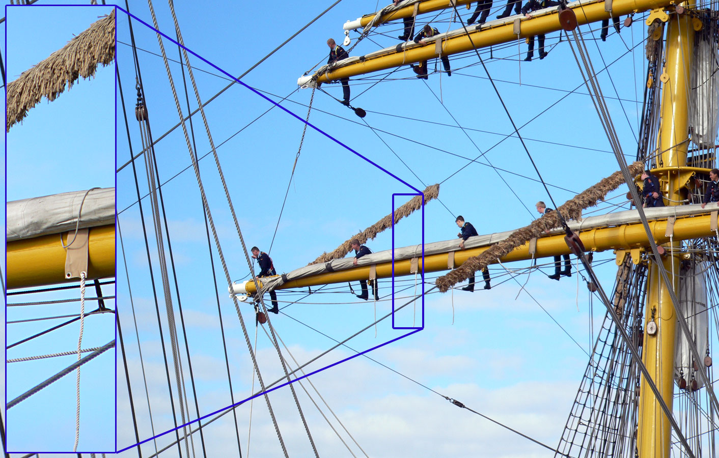 Rig of German Navy's training ship Gorch Fock.